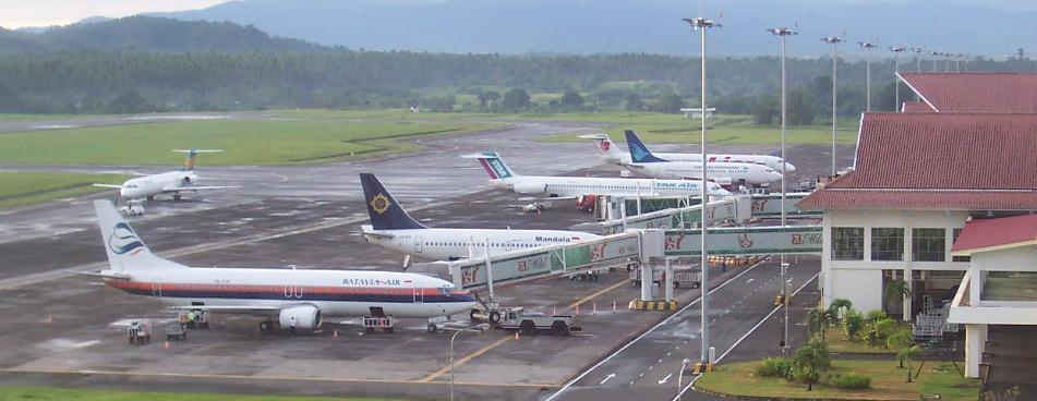 Sam Ratulangi International Airport during peak hours in the morning